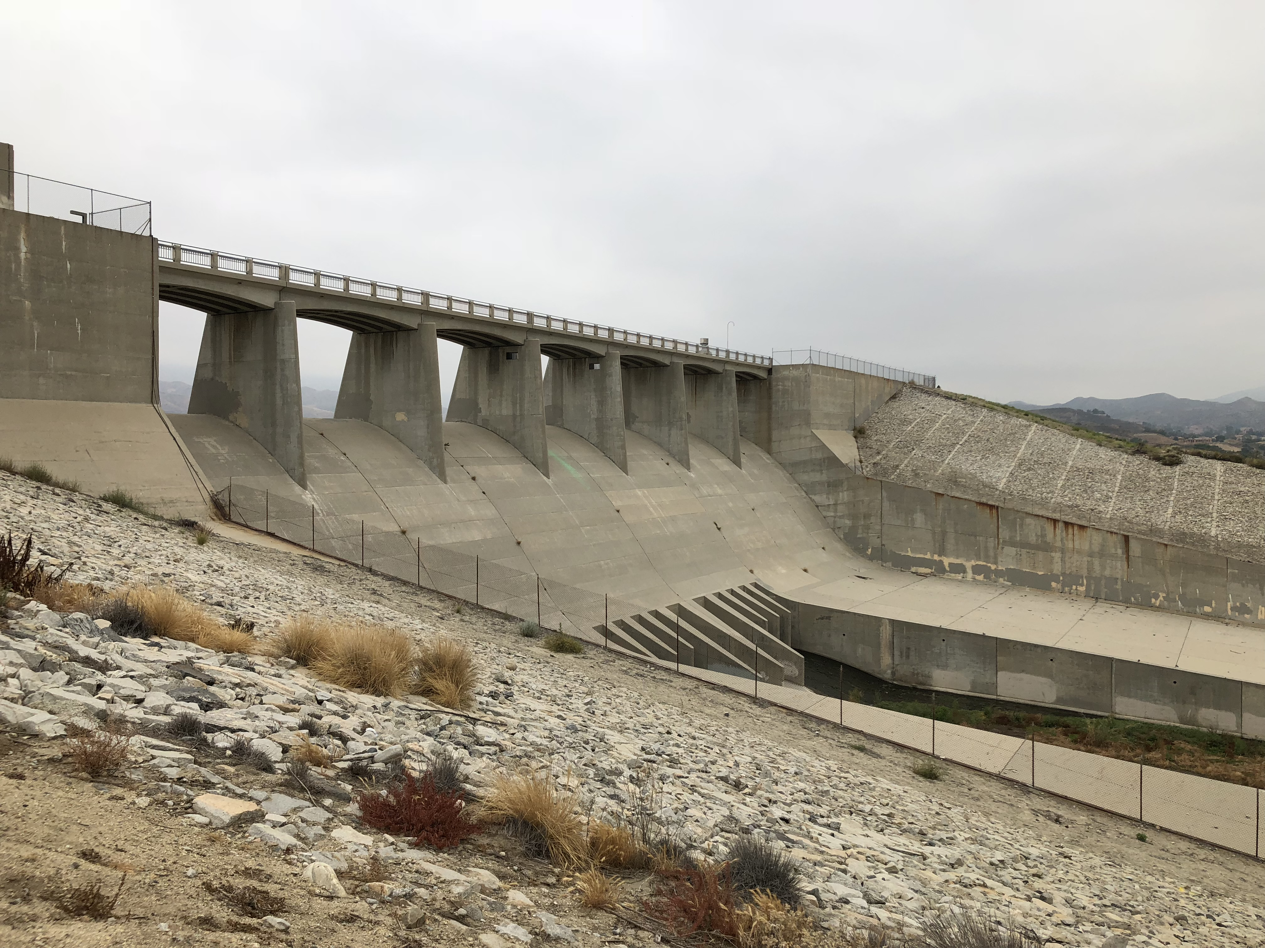 a view of Hansen Dam spillway looking northeast